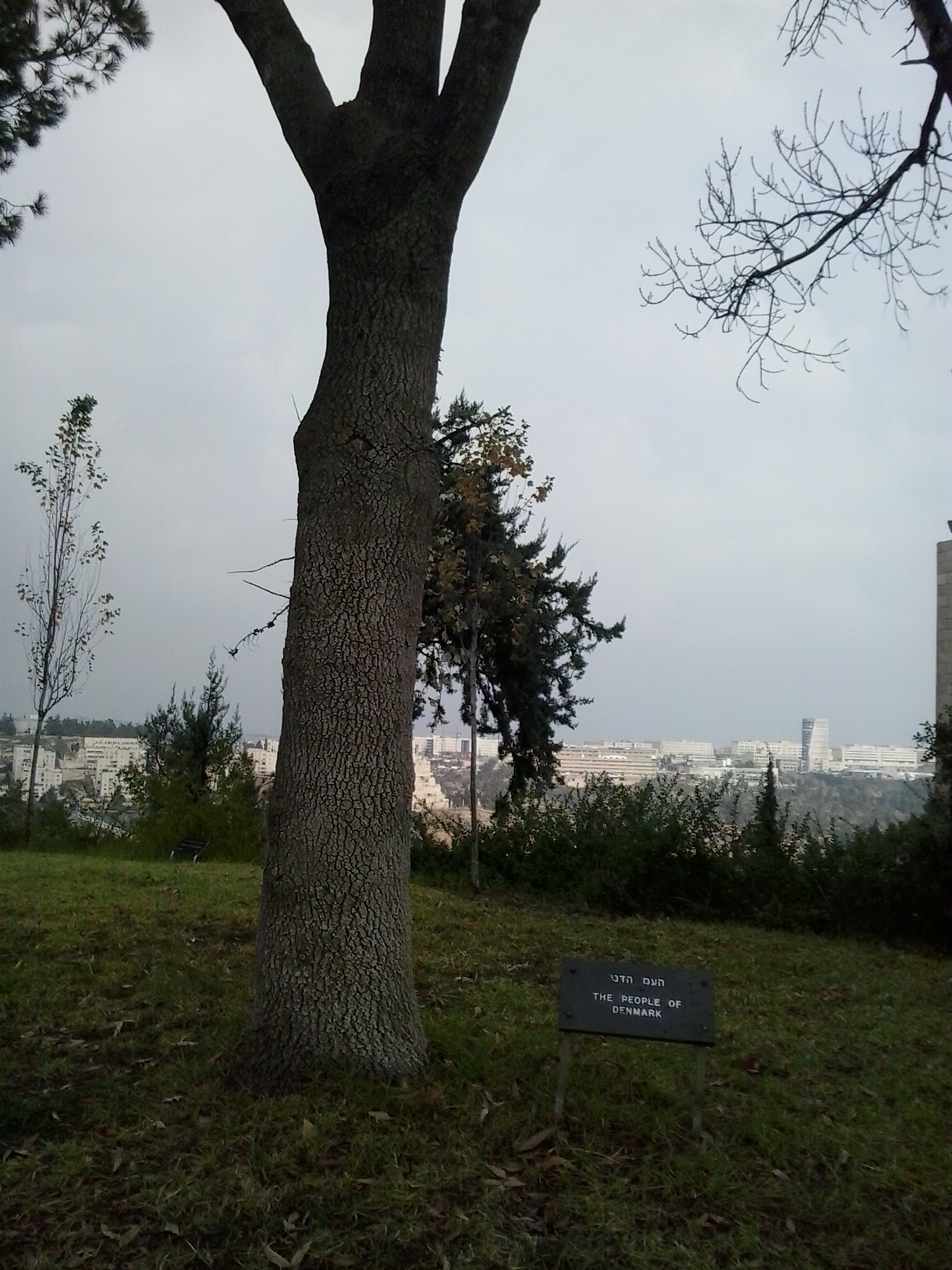 The tree planted at Yad Vashem honoring the Danish people